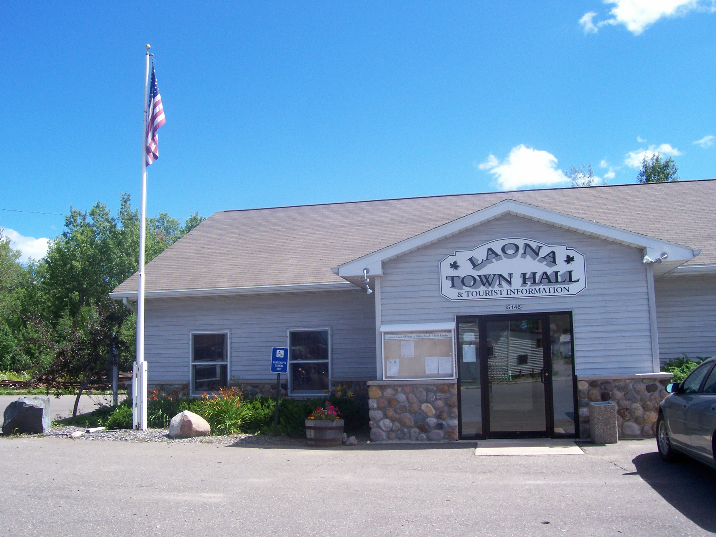 Looking east at the town hall for the town of Laona, Wisconsin in the unincorporated community of Laona (unincorporated), Wisconsin on U.S. Route 8.